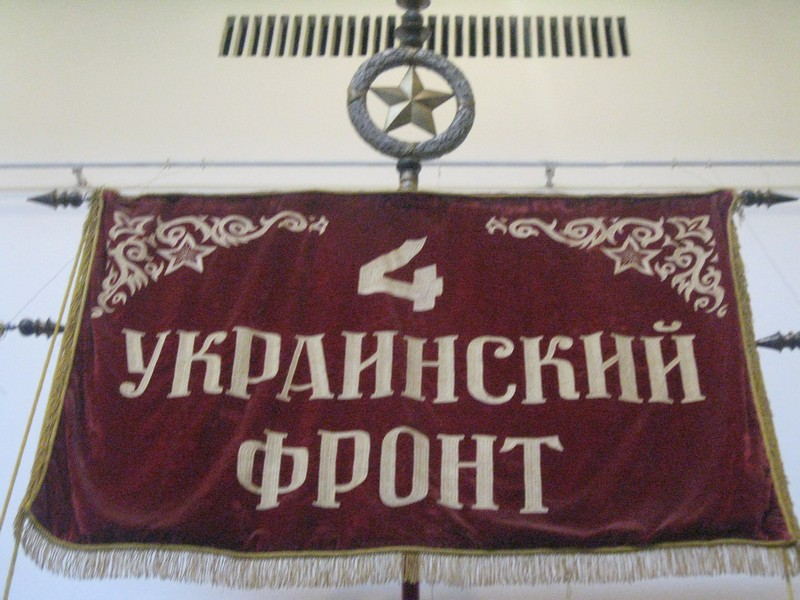 Regimental colours of the 4th Ukrainian Front